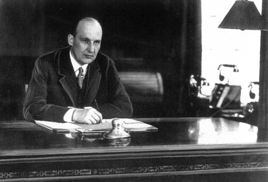 Ivar Kreuger in the head office of The Swedish Match, Stockholm around 1930.